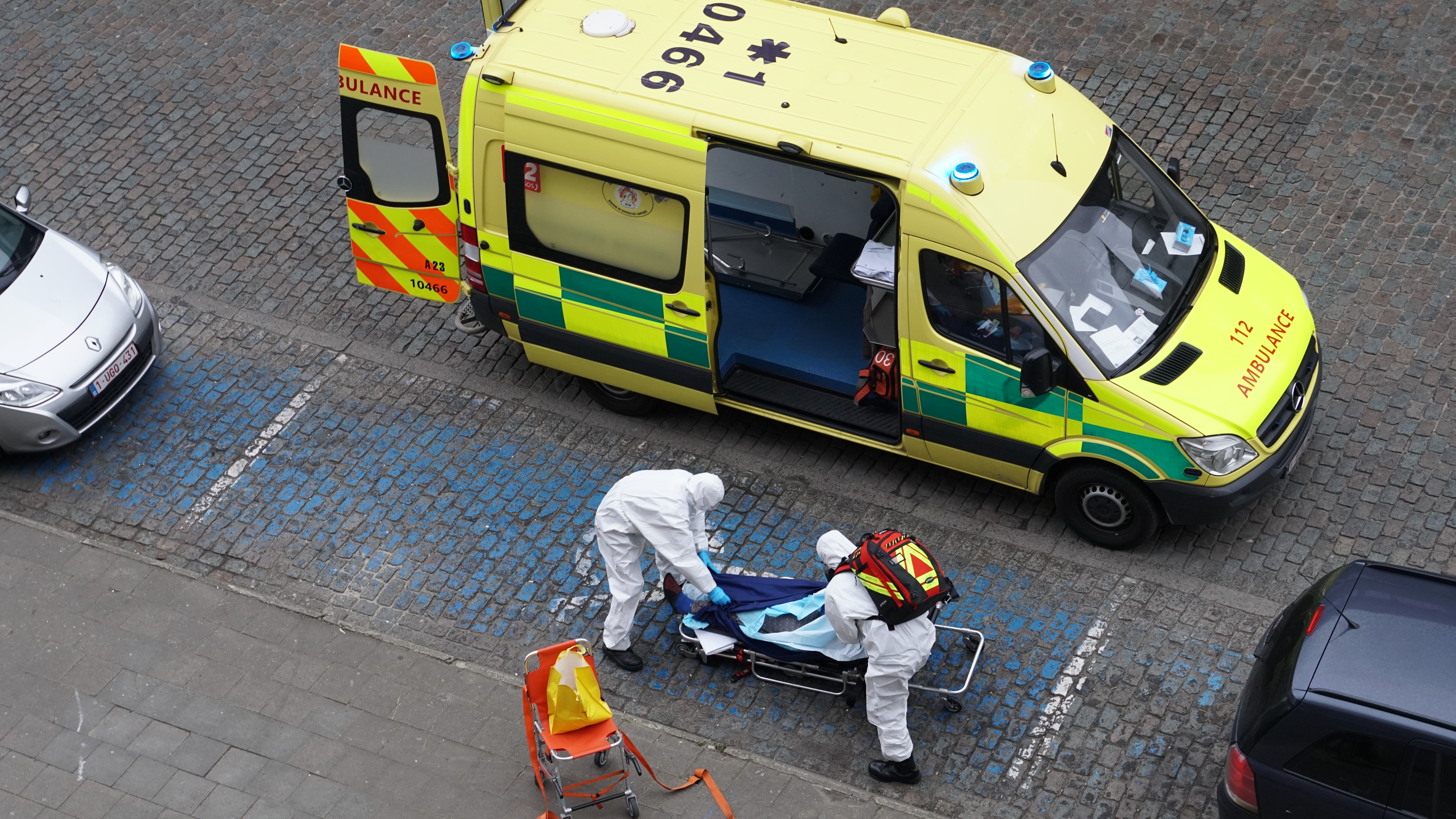 Divers 2020 - March Photos of March 2020 Photos de mars 2020 ( Diverses photos prisent en 2020 sans sujet reel. Various pictures taken in 2020 without real subject. )